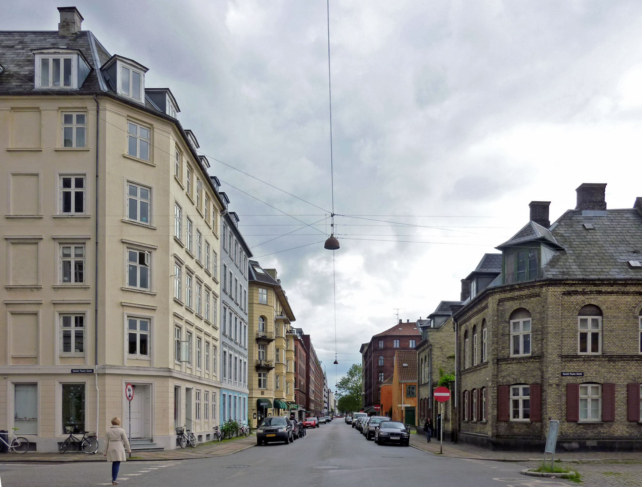 Borgergade, a street in central Copenhagen, Denmark. To the right one of the "Greu Rows" of the Nyboder district